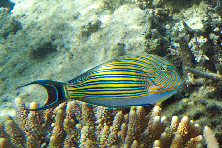 also called striped surgeonfish